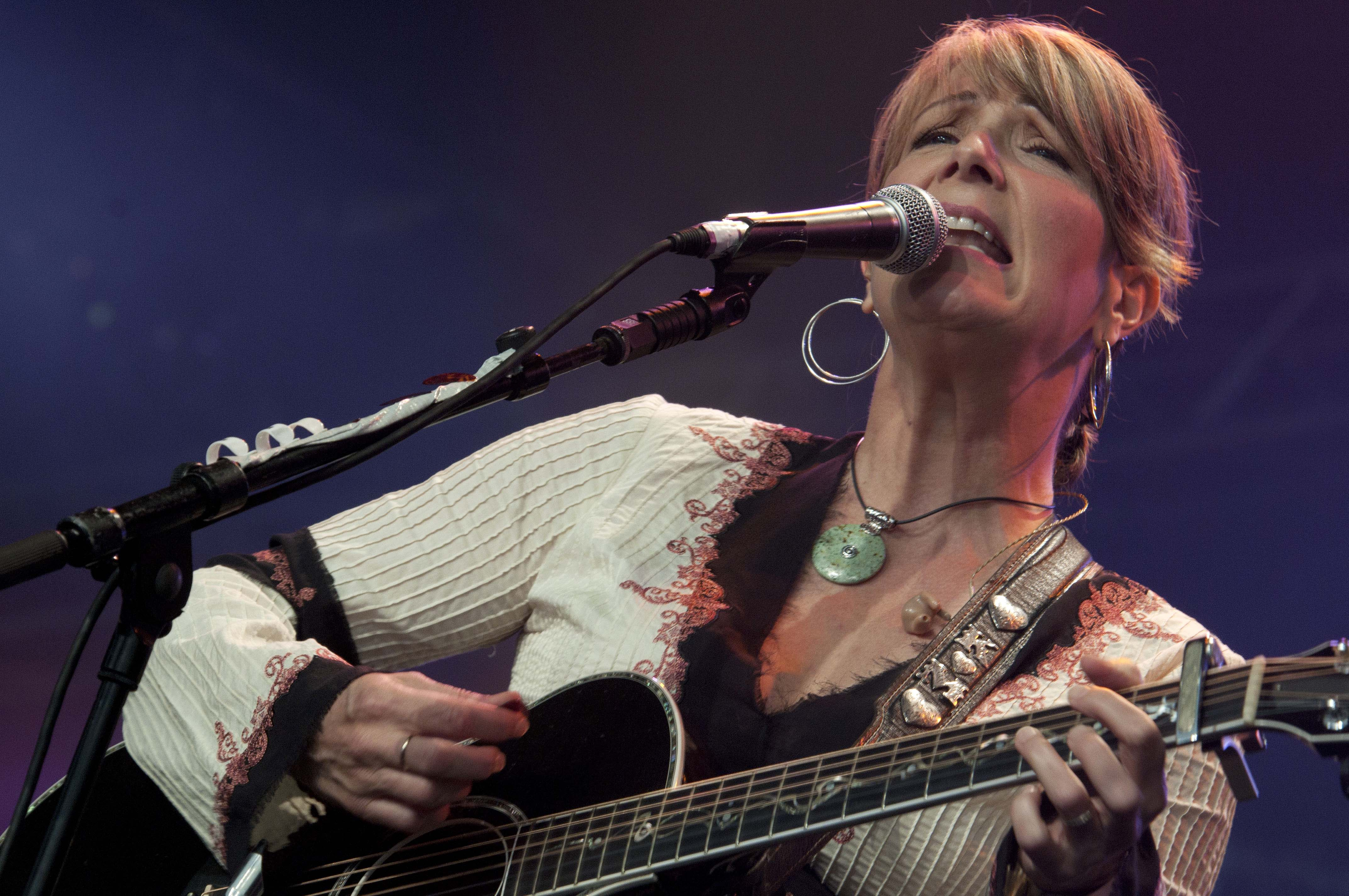 Musicians Cambridge Festivals 2001-2014